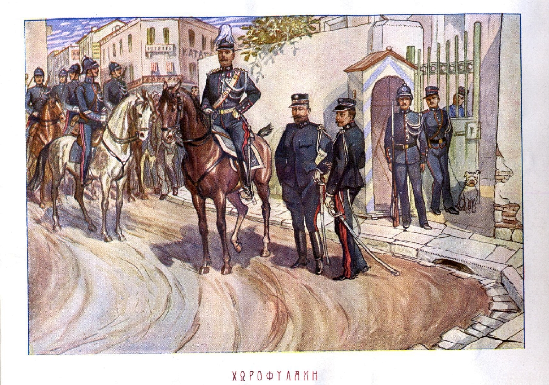 Greek Gendarmerie men and officers, ca. 1900